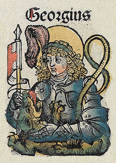 Illustration from the Nuremberg Chronicle